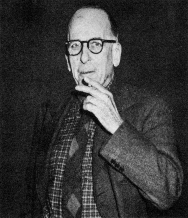 Fred C. Kelly, author, humorist, and journalist, circa 1952, from the book jacket of his biography of Kin Hubbard.